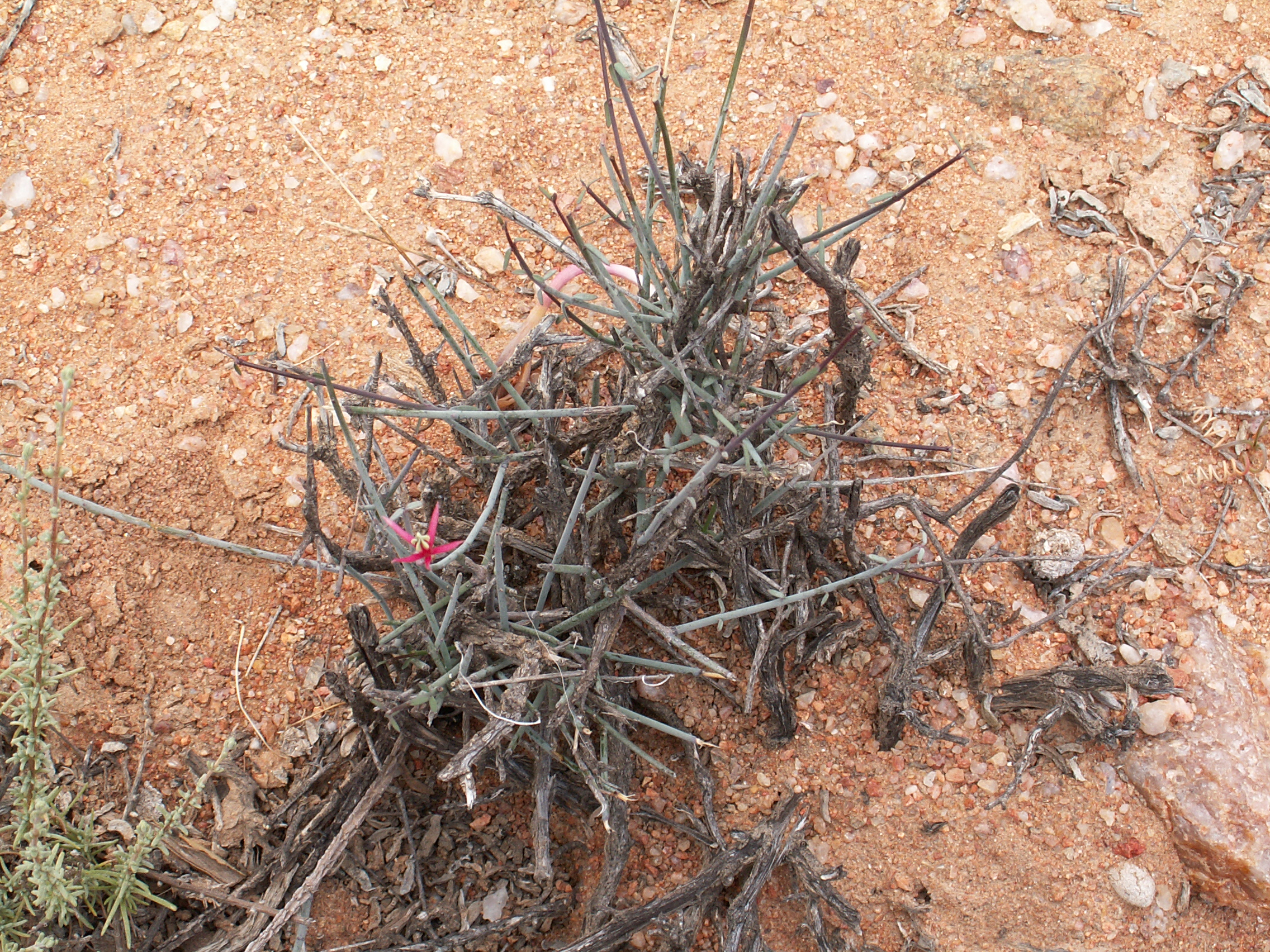 Microloma calycinum E. Mey., Richtersveld National Park, Richtersveld Local Municipality, Namakwa District Municipality, Northern Cape, South Africa